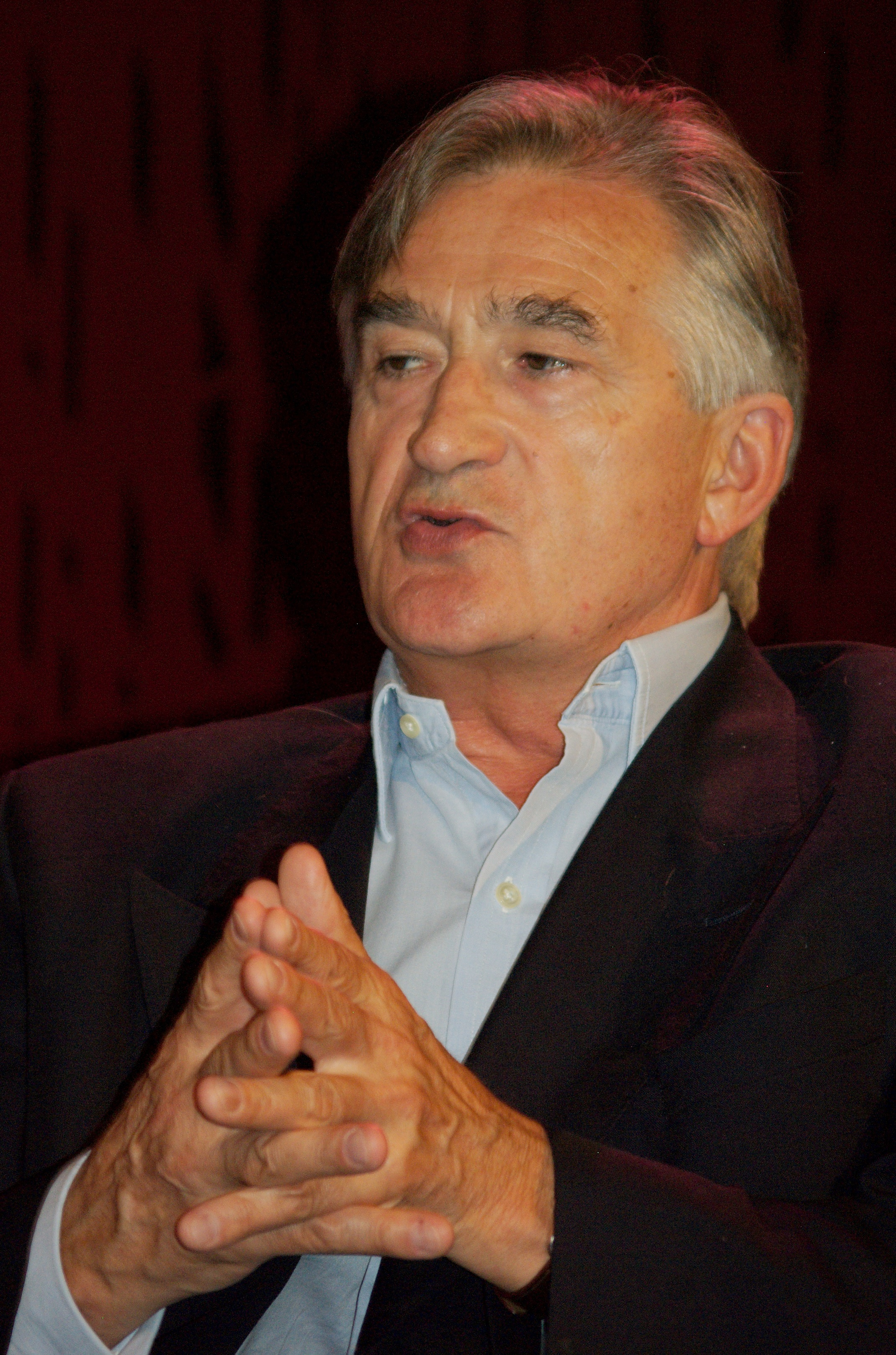 Antony Beevor in Litteraturhuset in Oslo, Norway ("Oslo Literature House").